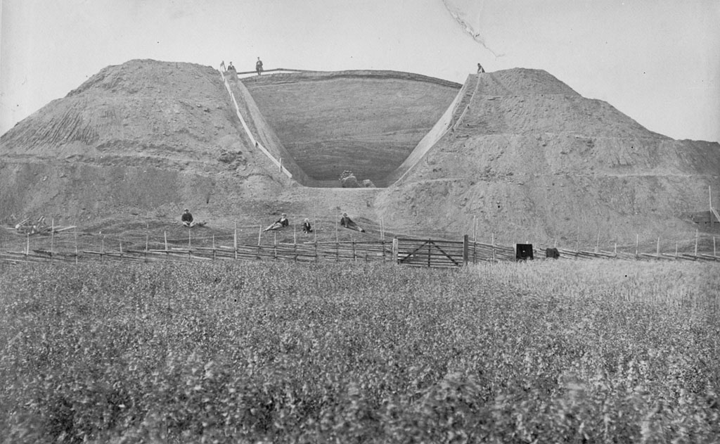 Excavation in 1874 of one of Uppsala Mounds – the Western Mound. A shaft was dug down to the bottom of the mound and a burnt burial site was uncovered. The three burial mounds, dated to ca. 475–550 AD, are also called "the Kings' Mounds".